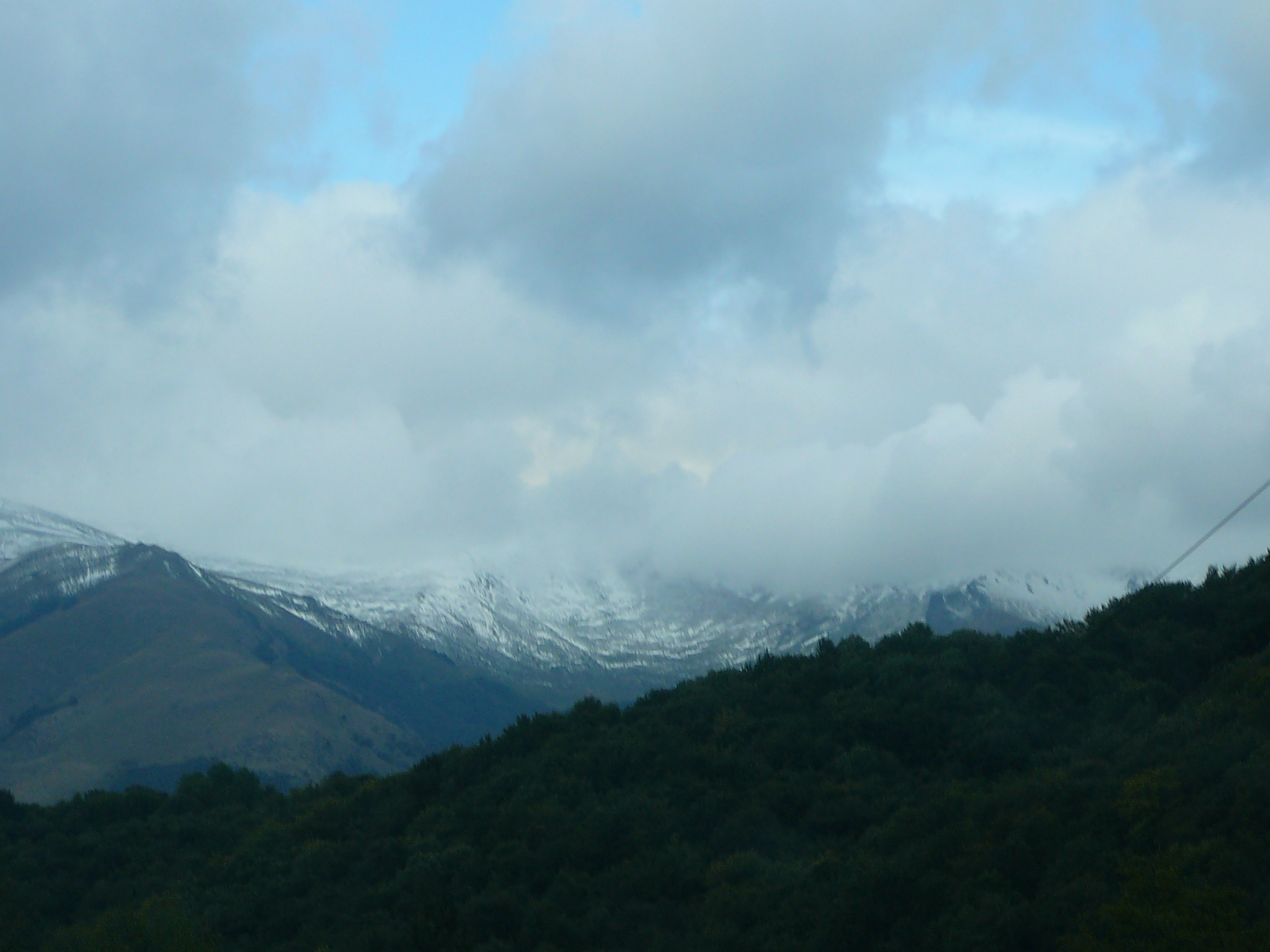 Bulgarian mountain Sredna gora